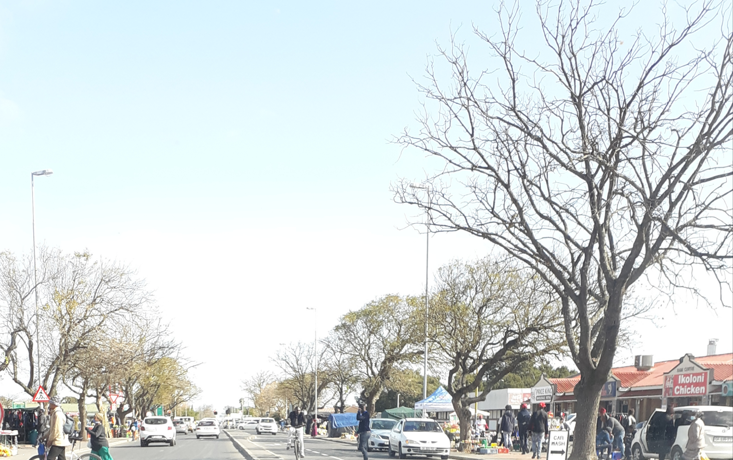 Old Paarl Road in Eikendal, Kraaifontein in the Western Cape, South Africa.